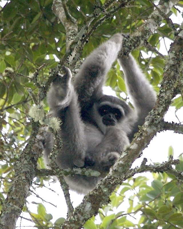 Silvery Gibbon in Gunung Gede, West Java, Indonesia